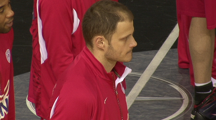 Radoslav Nesterović in 2011